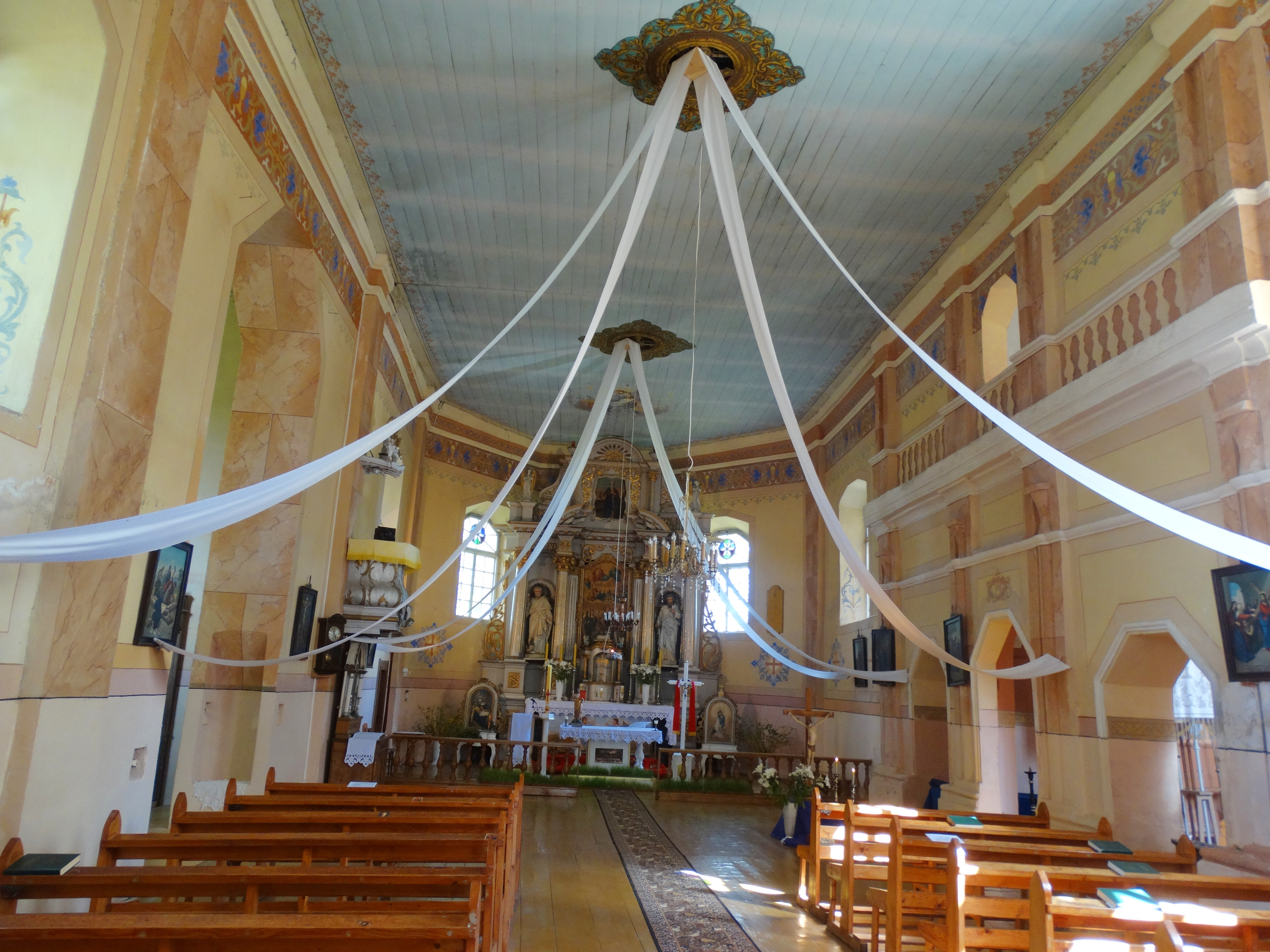 Catholic Church, interior, Pašušvys, Radviliškis District, Lithuania